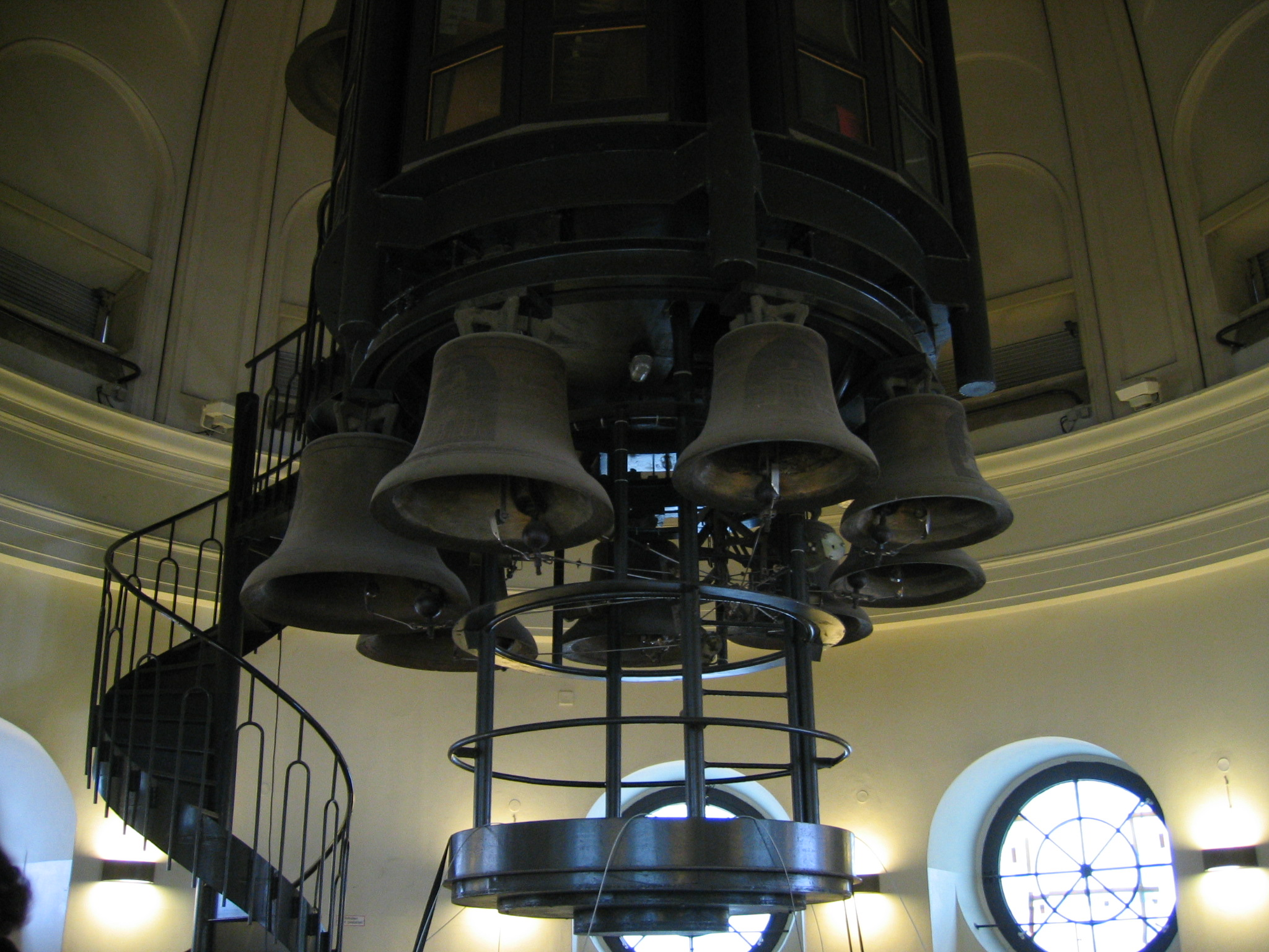 Bells in the Französischer Dom (french cathedral) in Berlin